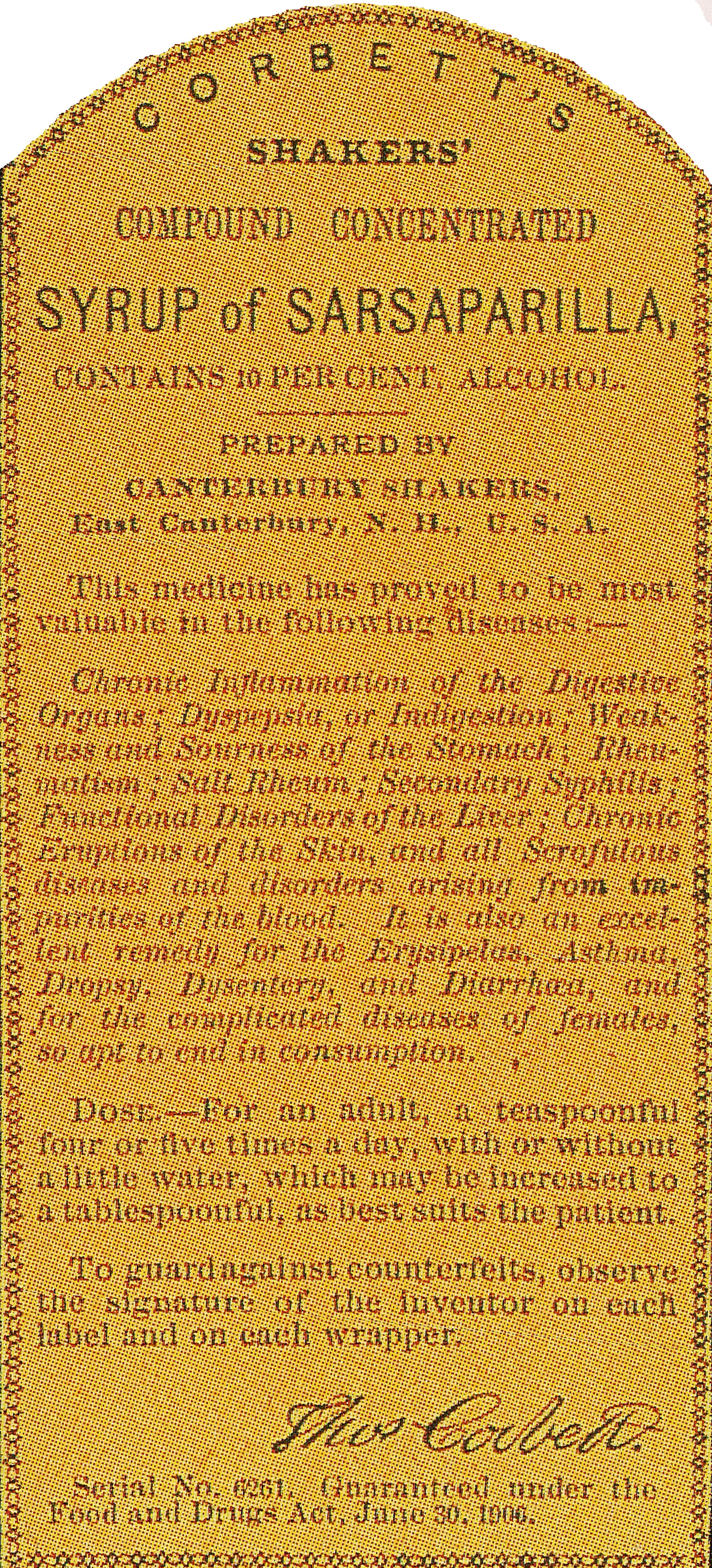 Bottle label of Corbett's Syrup of Sarsaparilla